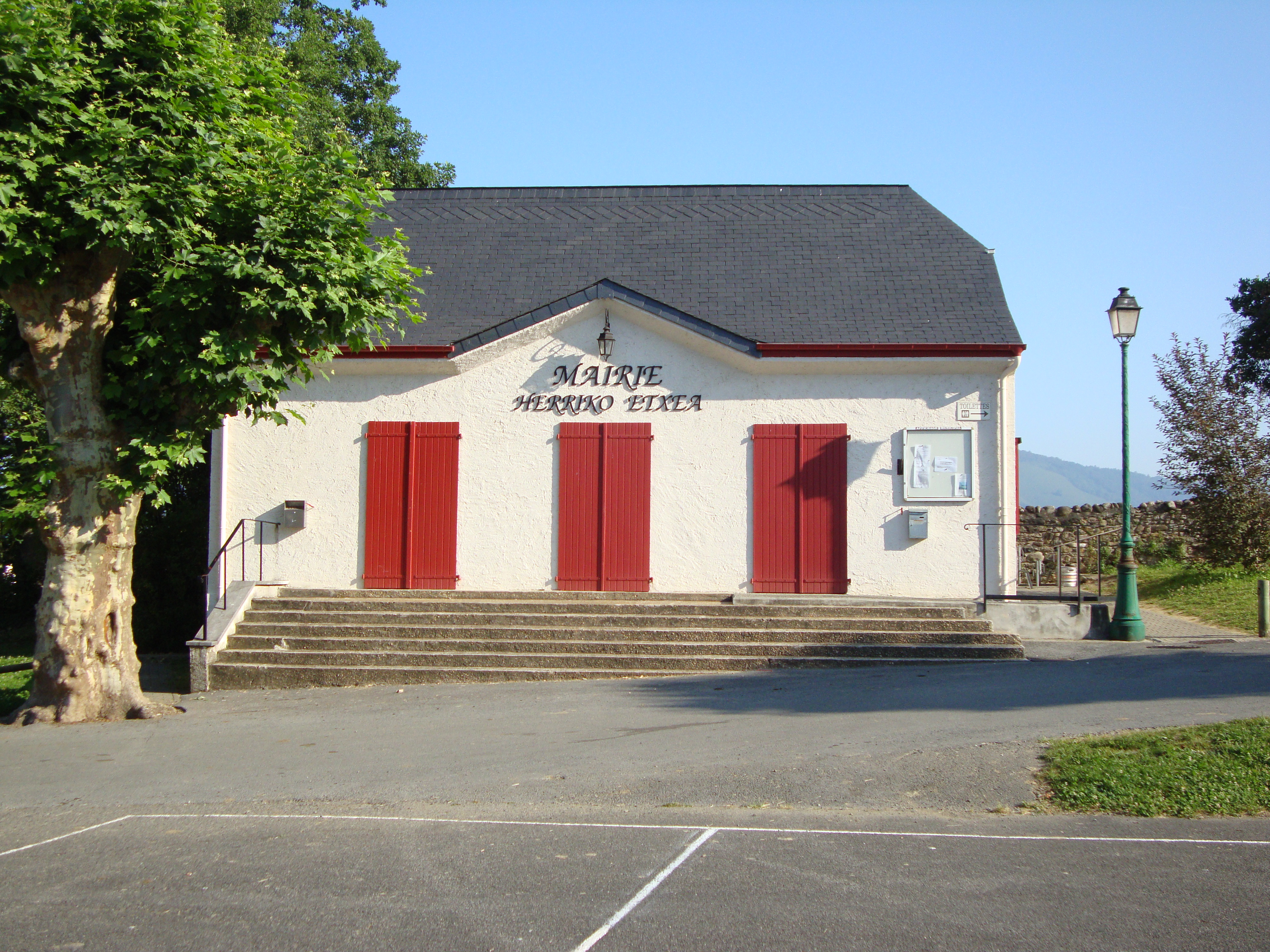 Gotein-Libarrenx (Pyr-Atl, Fr) town hall at Gotein